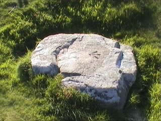 photo i took with video camera. Phil Ellery. I have posted this elsewhere on the WWW.